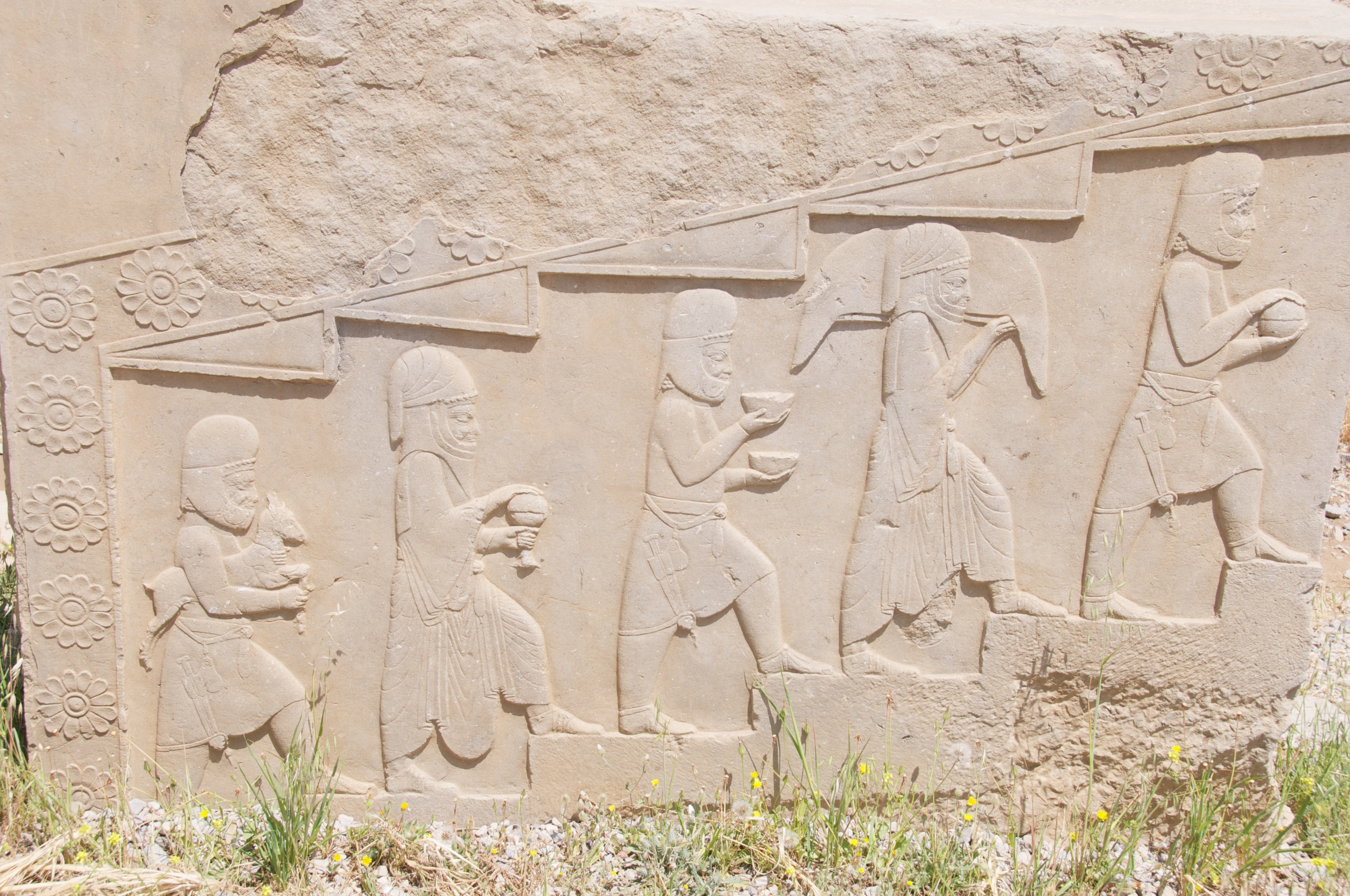 Bas Reliefs of Tribute Bearers, Persepolis, Iran